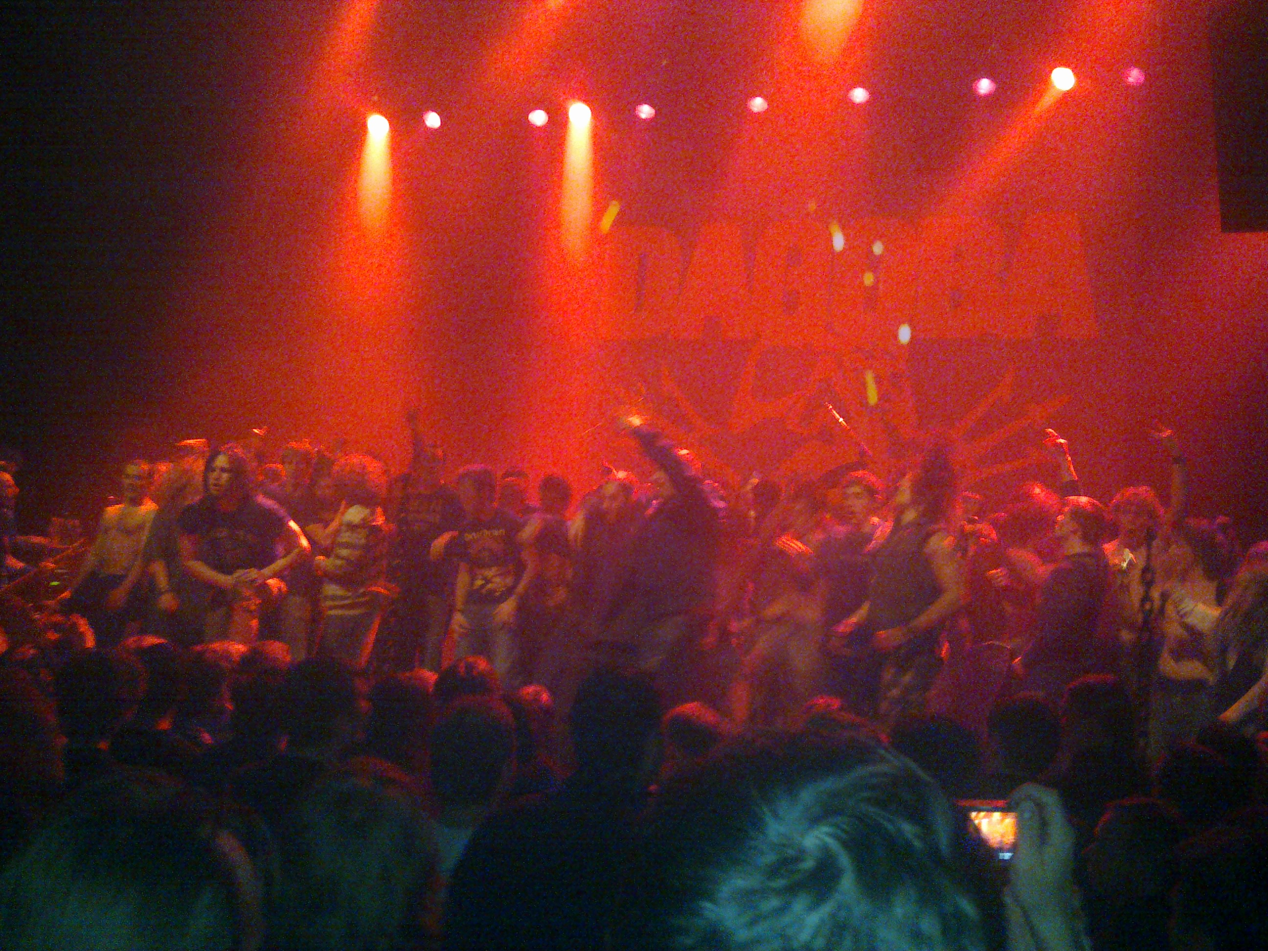 Picture of Dagoba inviting a lot of fans on the scene, in "La Laiterie", Strasbourg, the 17/12/2010.